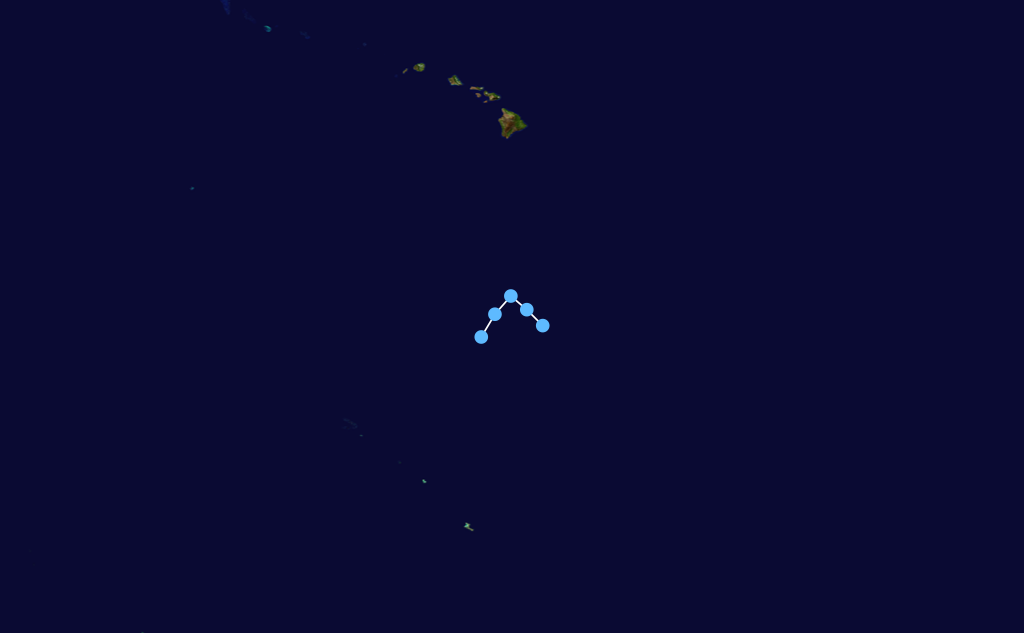 Hurricane Three-C track. Uses the color scheme from the Saffir-Simpson Hurricane Scale.